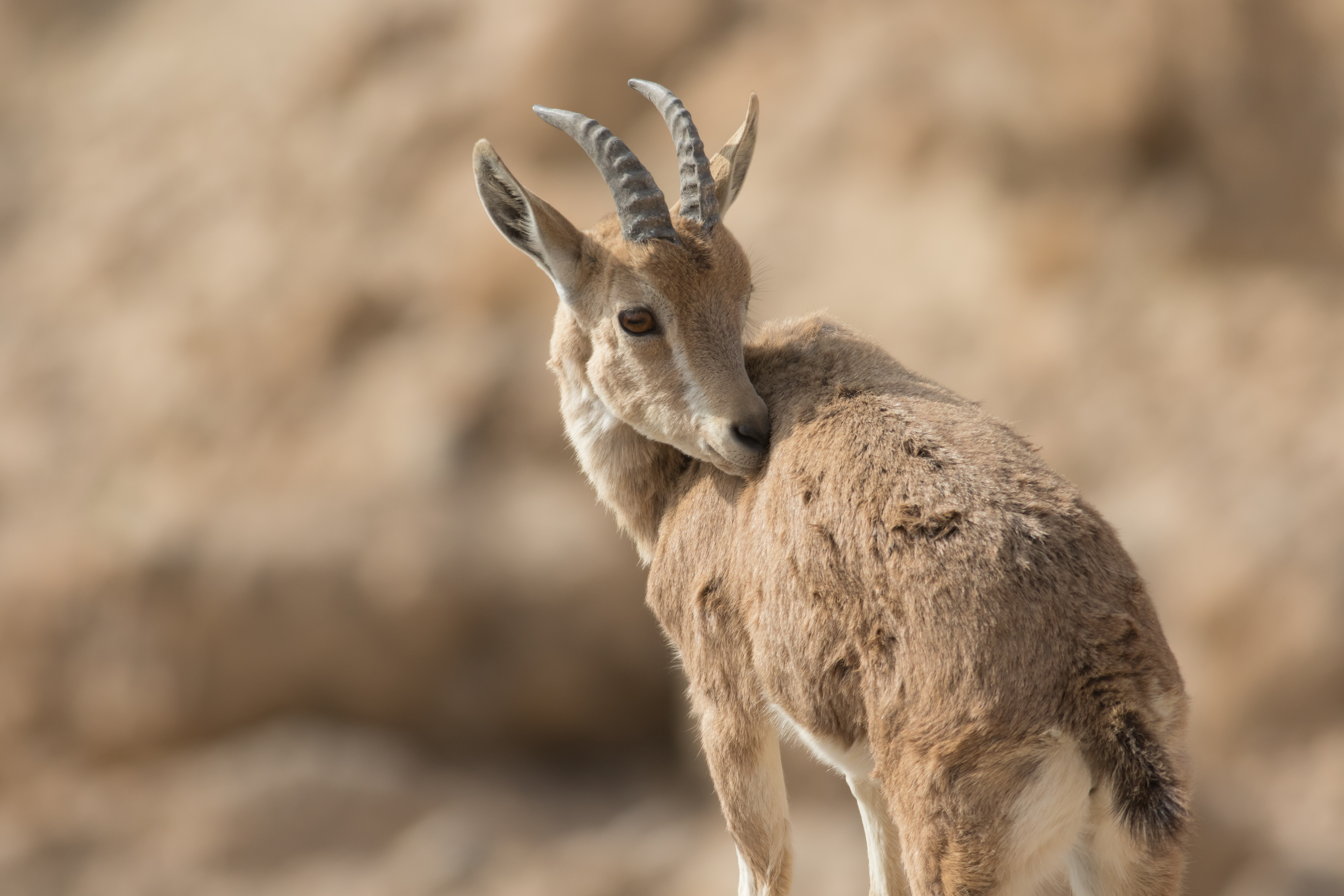 Nubian ibex (Capra nubiana), photo taken in Sde Boker, Israel.